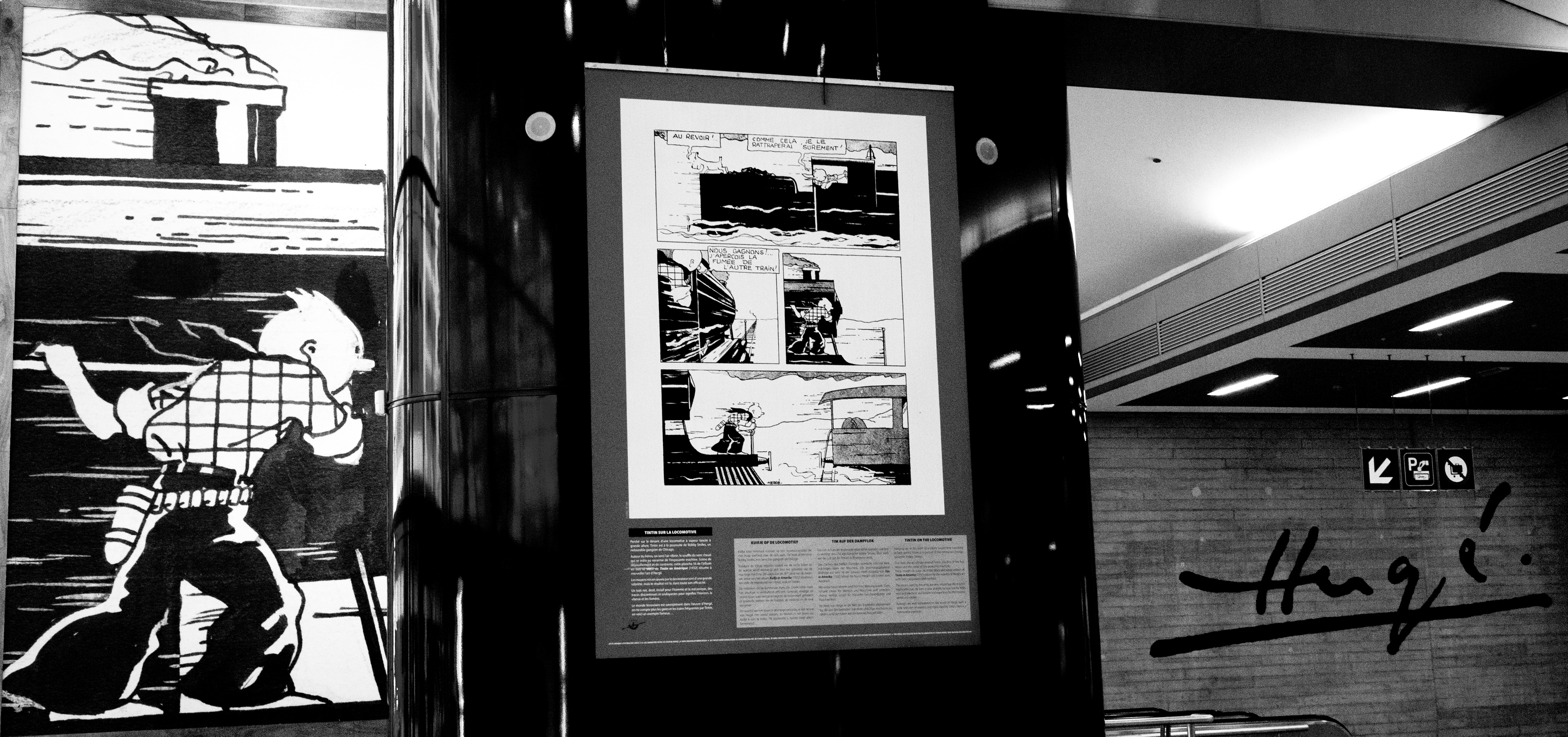 Planche de Hergé - Tintin sur la locomotive dans le Hall de la gare du midi Follow me on facebook Twitter : @didyPhotography All the photographies I've made are now under CC0 (Creative Commons Zero) CC0 - learn more To the extent possible under law,Eddy BERTHIERhas waived all copyright and related or neighboring rights to Gare Du Midi - Brussels. This work is published from:France.